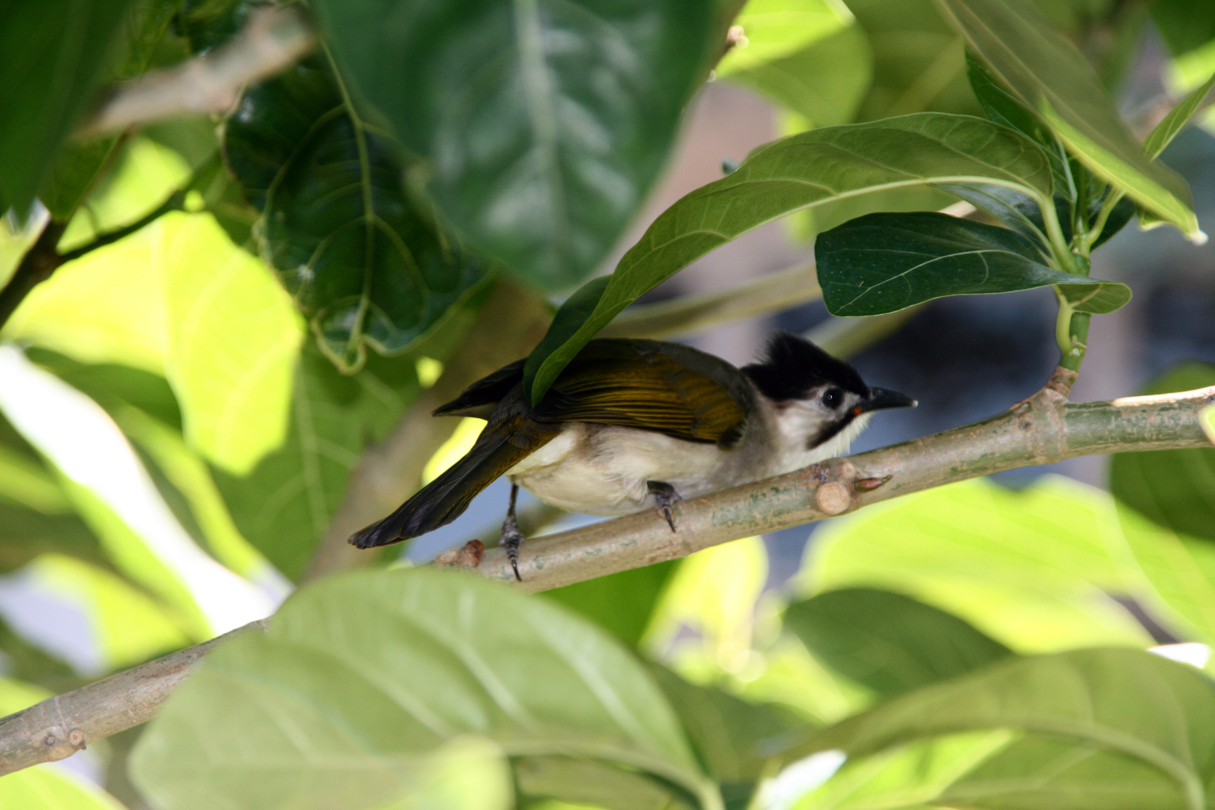 Taiwan Bulbul near Howard Beach Resort in Kenting.